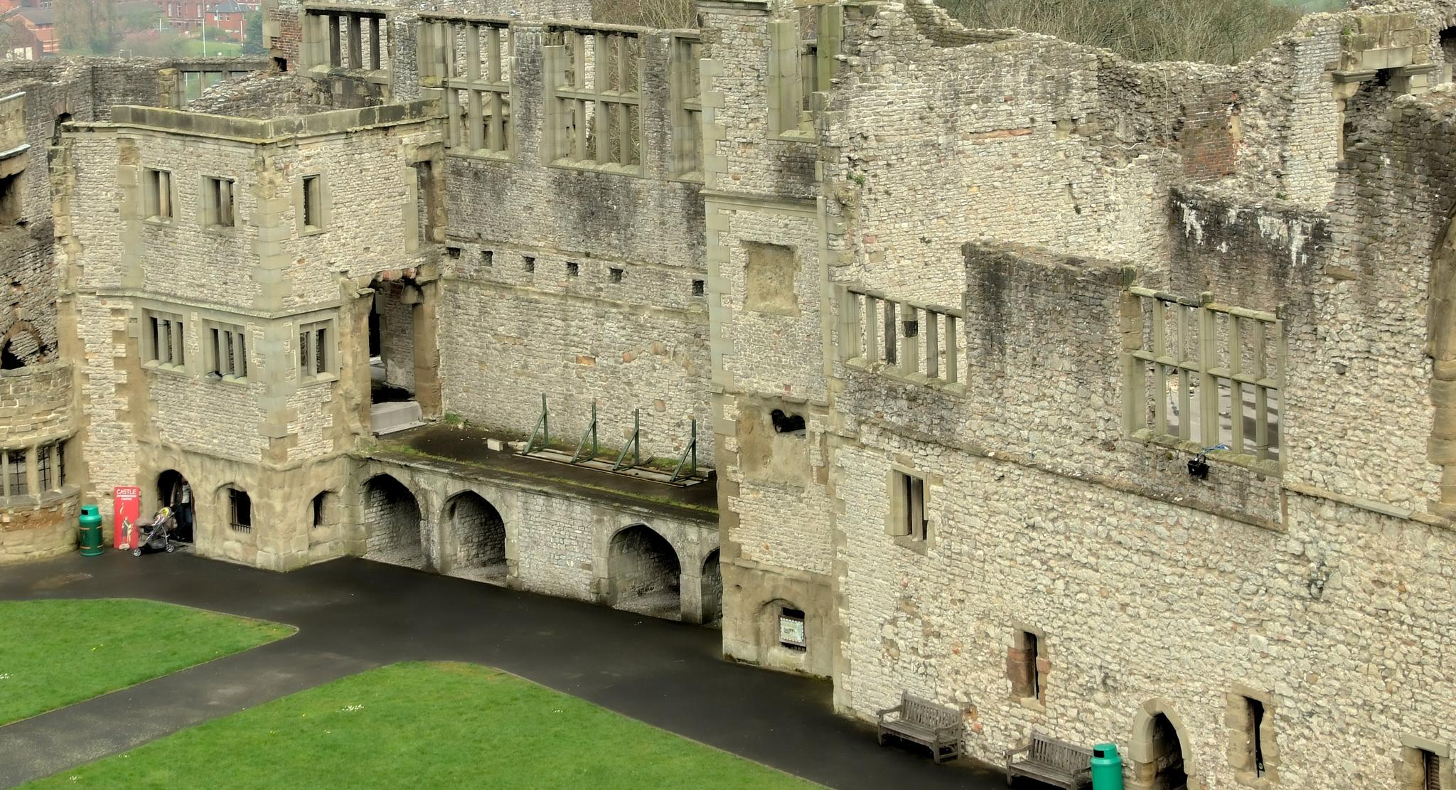 Dudley Castle, West Midlands, England.